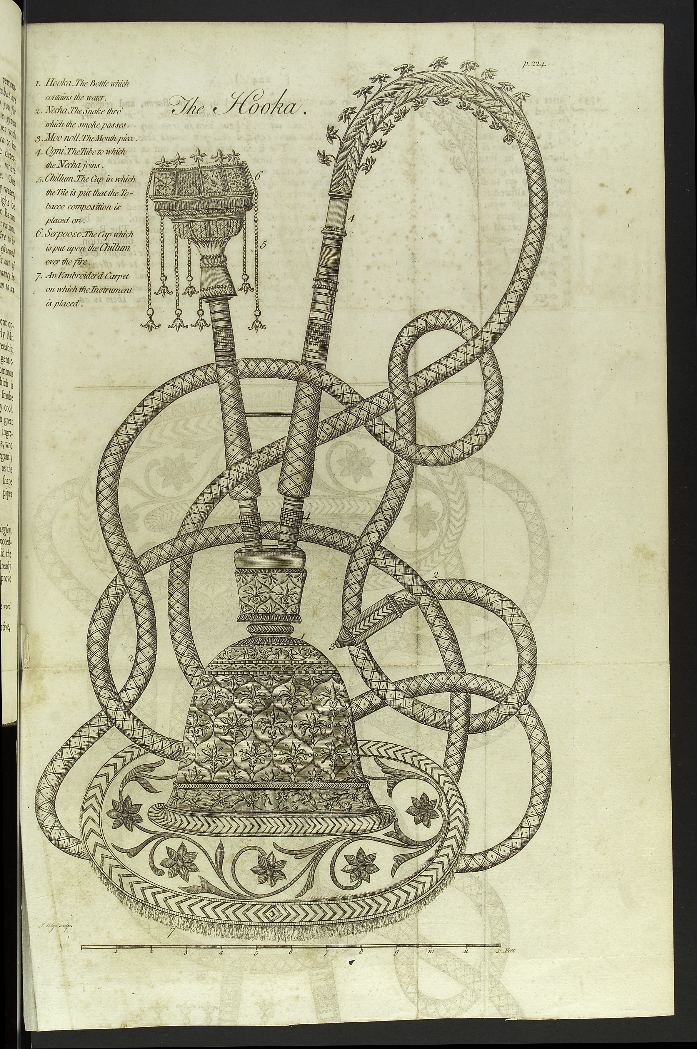 The Hooka. Copperplate engraving showing a hookah, or Indian bubble-pipe. (Ives wrote that: ' the smoke passes through water before it enters the mouth, and is thereby very cool ... [the tobacco] too is of a mild kind ... made into a paste with sugar, scented ingredients, and rose-water, and thus smoking is made agreeable to persons who would otherwise dislike it ... [the Hookah] will serve to give a competent idea of all the pipes that are used throughout Asia.) Wellcome Images Keywords: Tobacco; Asian Continental Ancestry Group; India; Pipe; Culture; Oriental; Asian; Smoking; Hookah